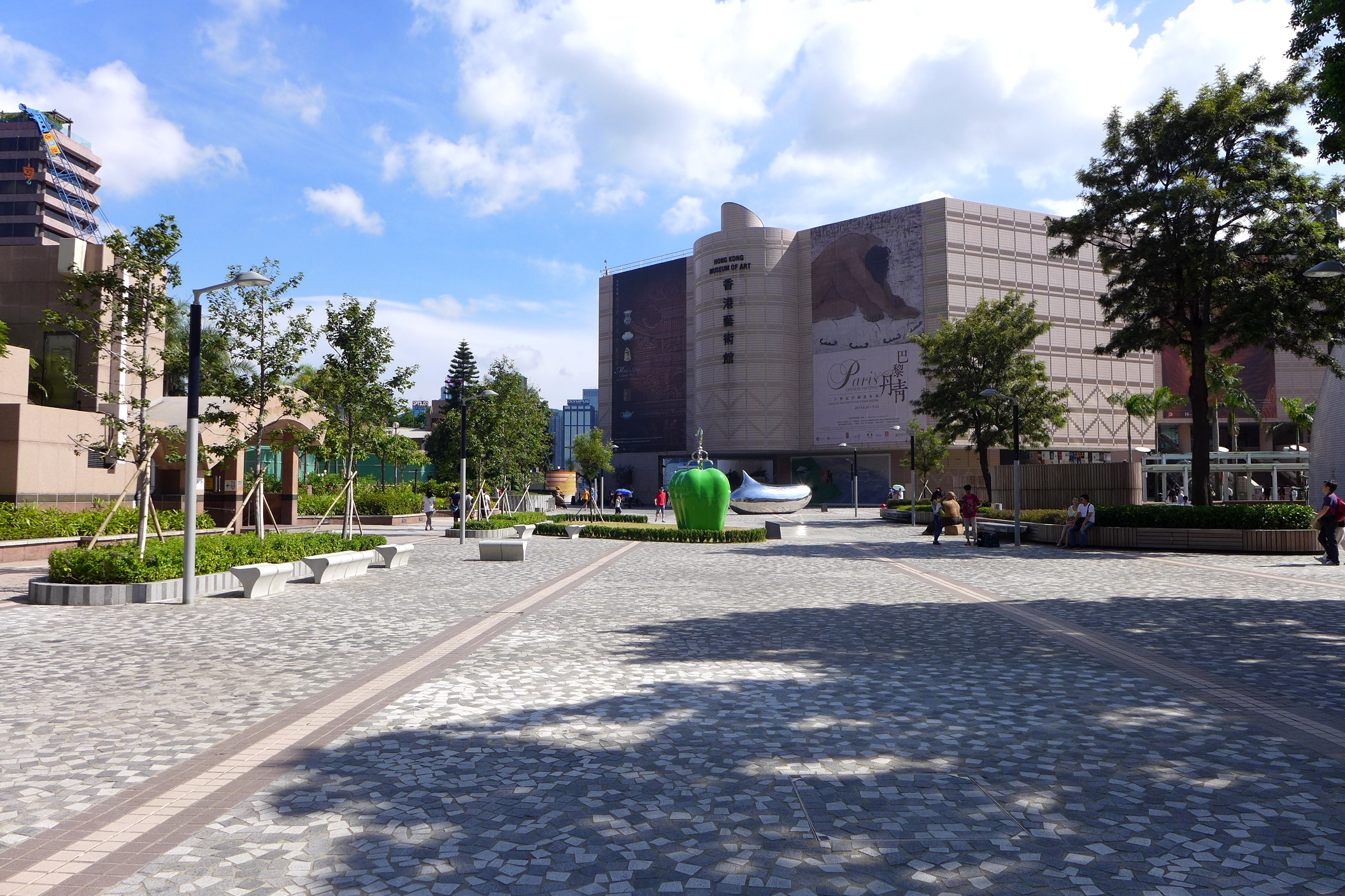 The Art Square at Salisbury Garden